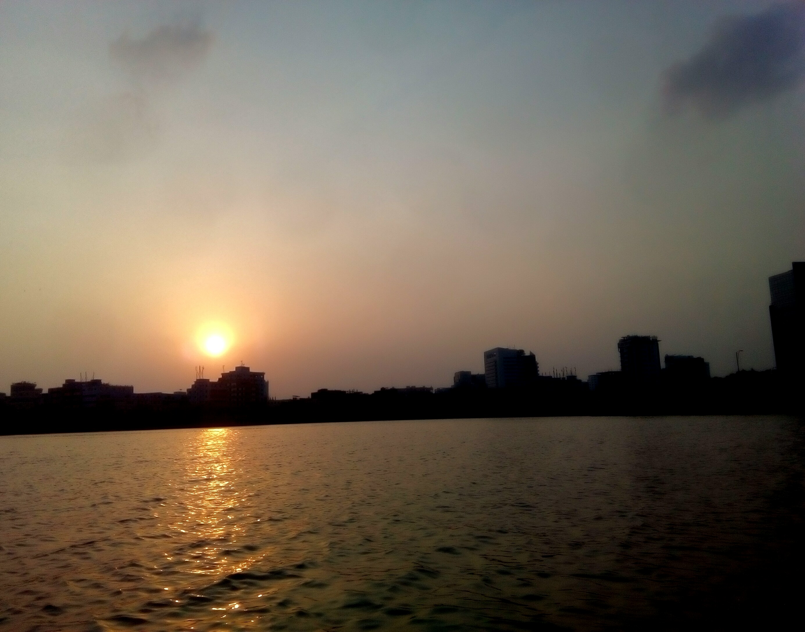 Sunset scenery in Hatirjheel.